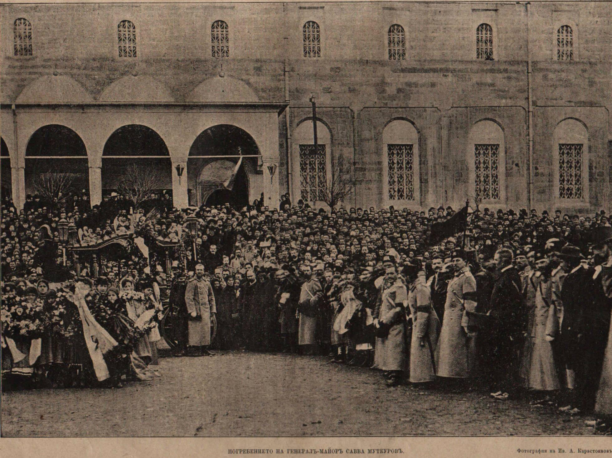 The funeral of Major General Sava Mutkurov in "St Spas" church in Sofia, Bulgaria